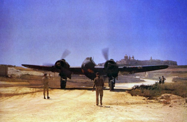 With Mdina in the background, Bristol Beaufighter Mark VIF 'F-Freddie' of No 272 Squadron, Royal Air Force, on the taxiway at Ta'Qali airfield, Malta, in June 1943.